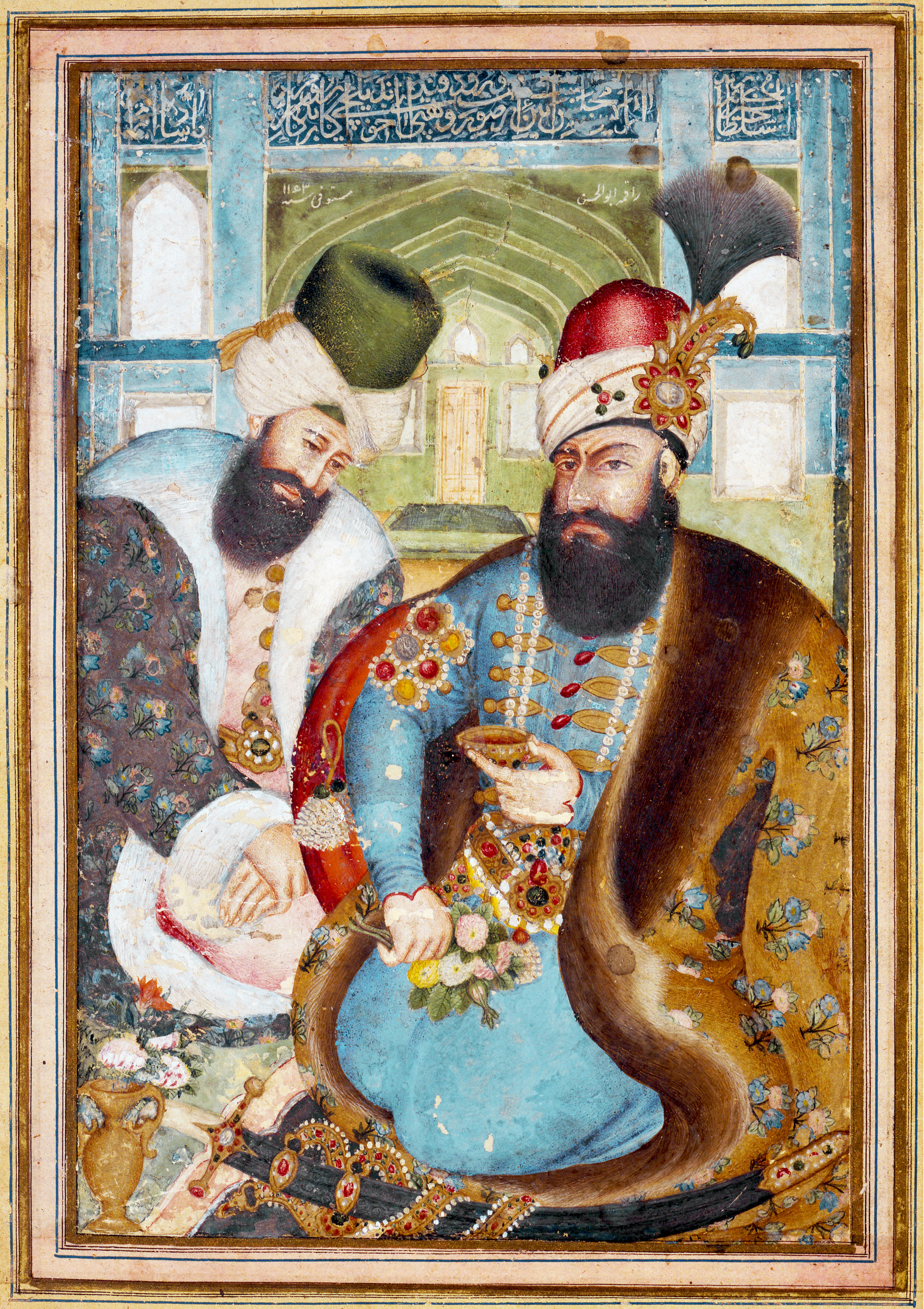 The founder of the Zand dynasty, Karim Khan (1750-1779), is portrayed as a powerful ruler, while the Ottoman ambassador who visited Shiraz in 1775 is suitably obsequious. The bearded ruler, who never adopted the title of king, is seated with a bouquet of flowers and his cup of wine, wearing a fur-trimmed caftan of Persian brocade and the kind of hat that was used under both the Afsharids and the Zand dynasty. The painting was later attributed correctly to Abu’l Hasan Mustawfi, an artist who had also served for many years as a provincial governor and was moreover a respected historian. The dating 1161 H (1749-1750), however, is incorrect. Abu’l Hasan’s first known painting was actually from 1775, the year of the ambassador’s visit.